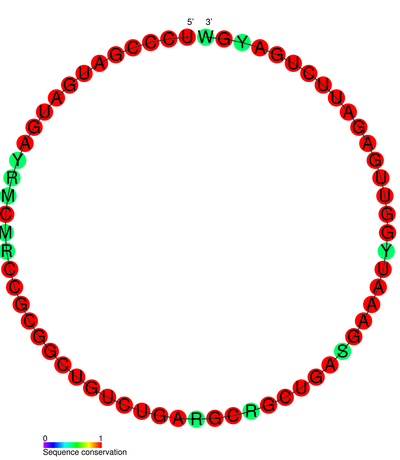 Sequence conservation of v-snoRNA1